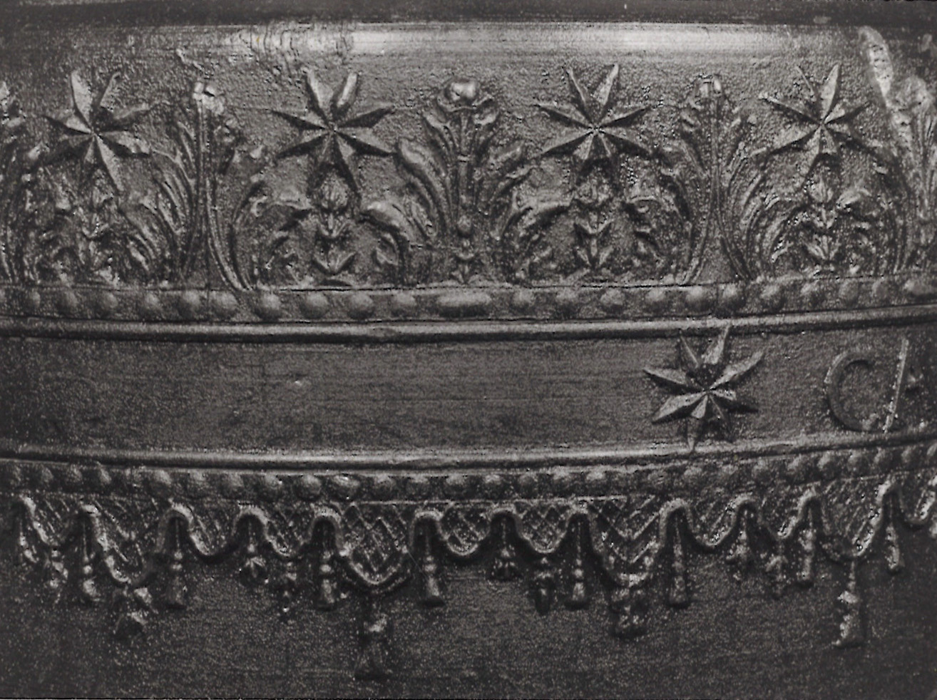 Church bell from the Grote Kerk at Almelo requisitioned by the German occupation authorities in The Netherlands to be melted down for weapons and ammunition.